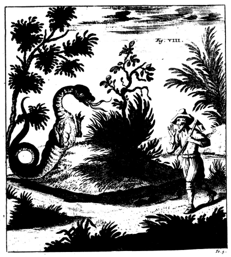 Helvetic dragon with two forelegs, Fig VIII, encountered on Mt. Kamor by 70-year old Johannes Egerter (Martis-Hans-) from the village of Lienz (St. Gallen). It was black with yellow-stripes, and had a golden-colored belly.[1][2][3]